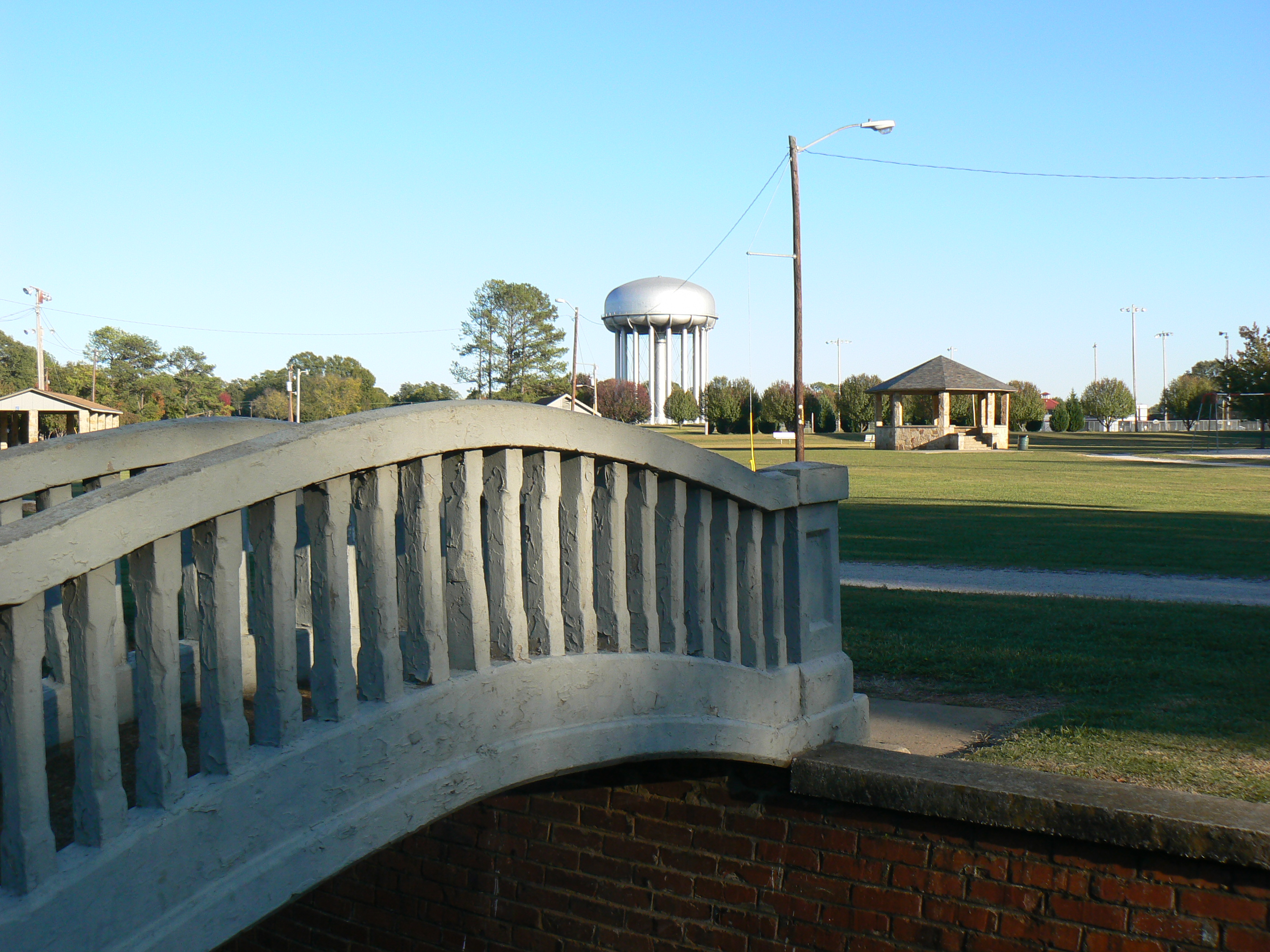 Self taken picture of bridge at Delano Park (Decatur)